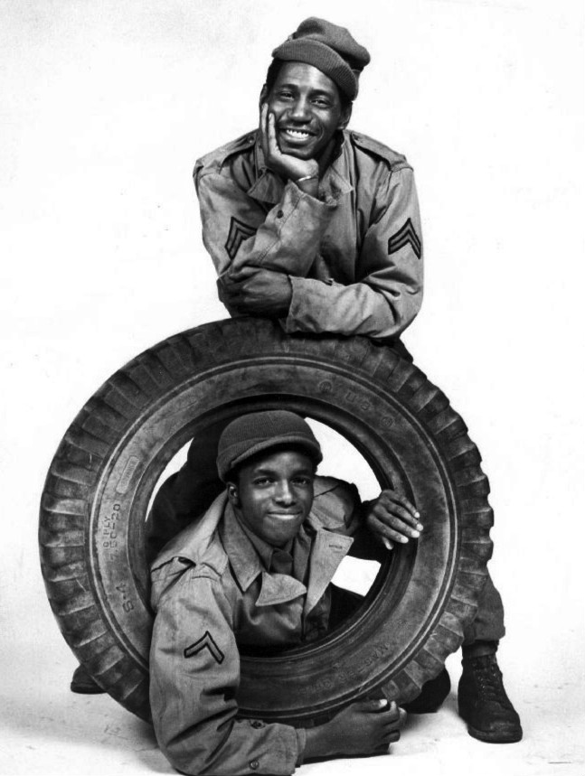 Publicity photo of Stu Gilliam (top) and Hilly Hicks for the short-lived television program Roll Out. The show was an attempt to cash in on the popularity of M.A.S.H..